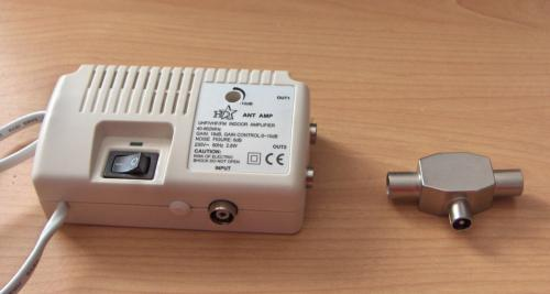 TV splitter.